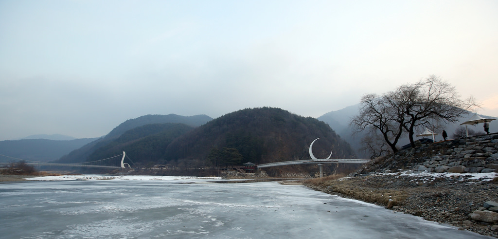 A-Train (Korail), Jeongseon Arirang Train, 정선아리랑열차, touring, January 16, 2015, Jeongseon-gum, Gangwon-do, South Korea.